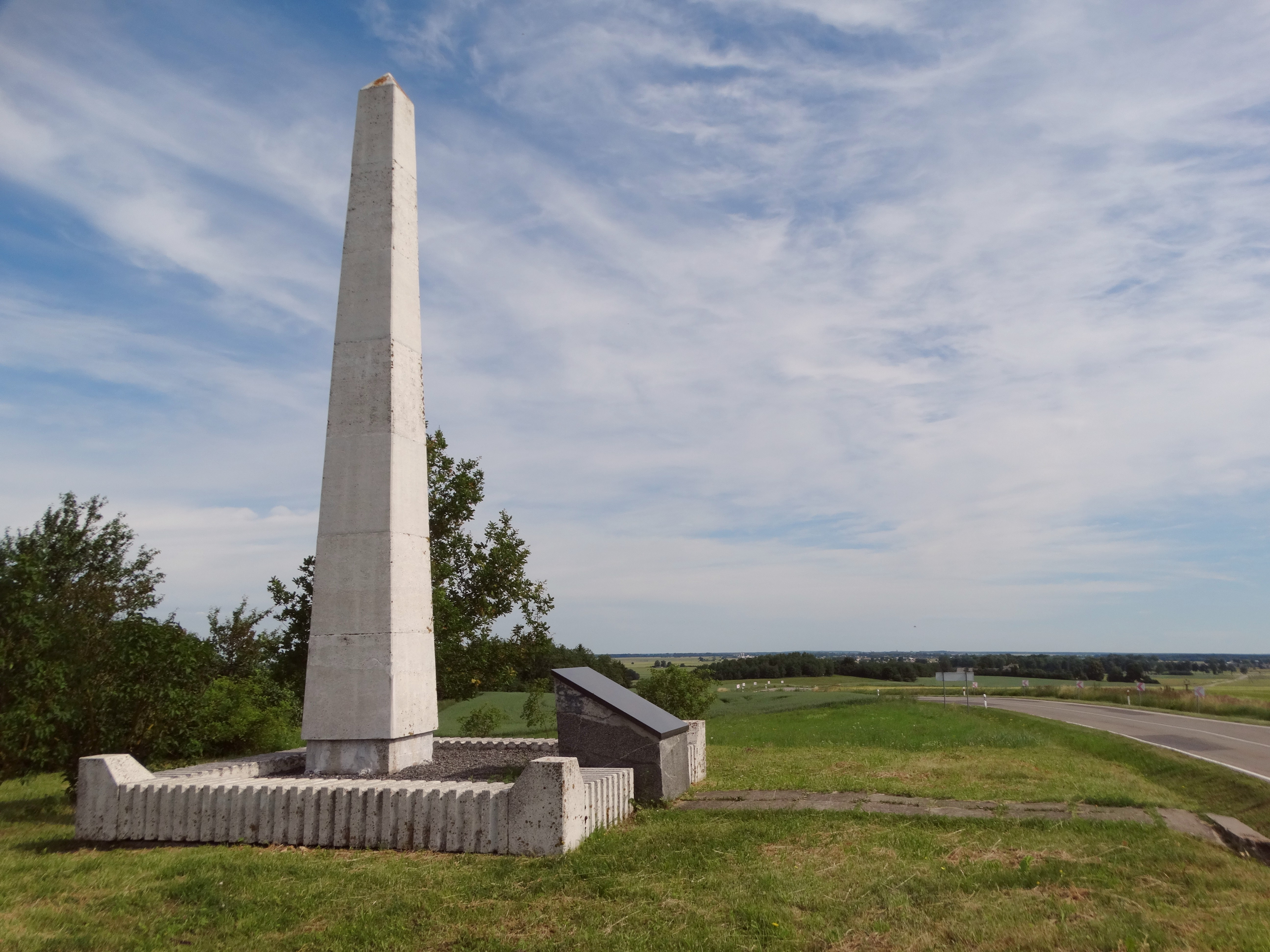 Memorial to A. Kulvietis, Jonava district, Lithuania